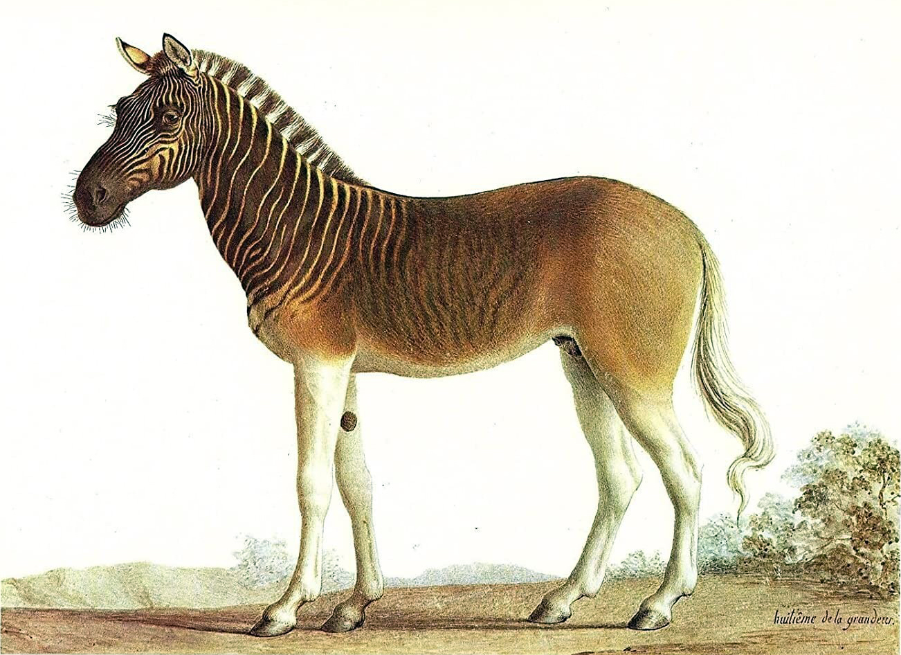 Quagga, an extinct equid. Water colour on vellum parchment by Nicolas Marechal (1753 -1802), painted at Paris in 1793 and illustrates the Quagga stallion of Louis XVI menagerie at Versailles.